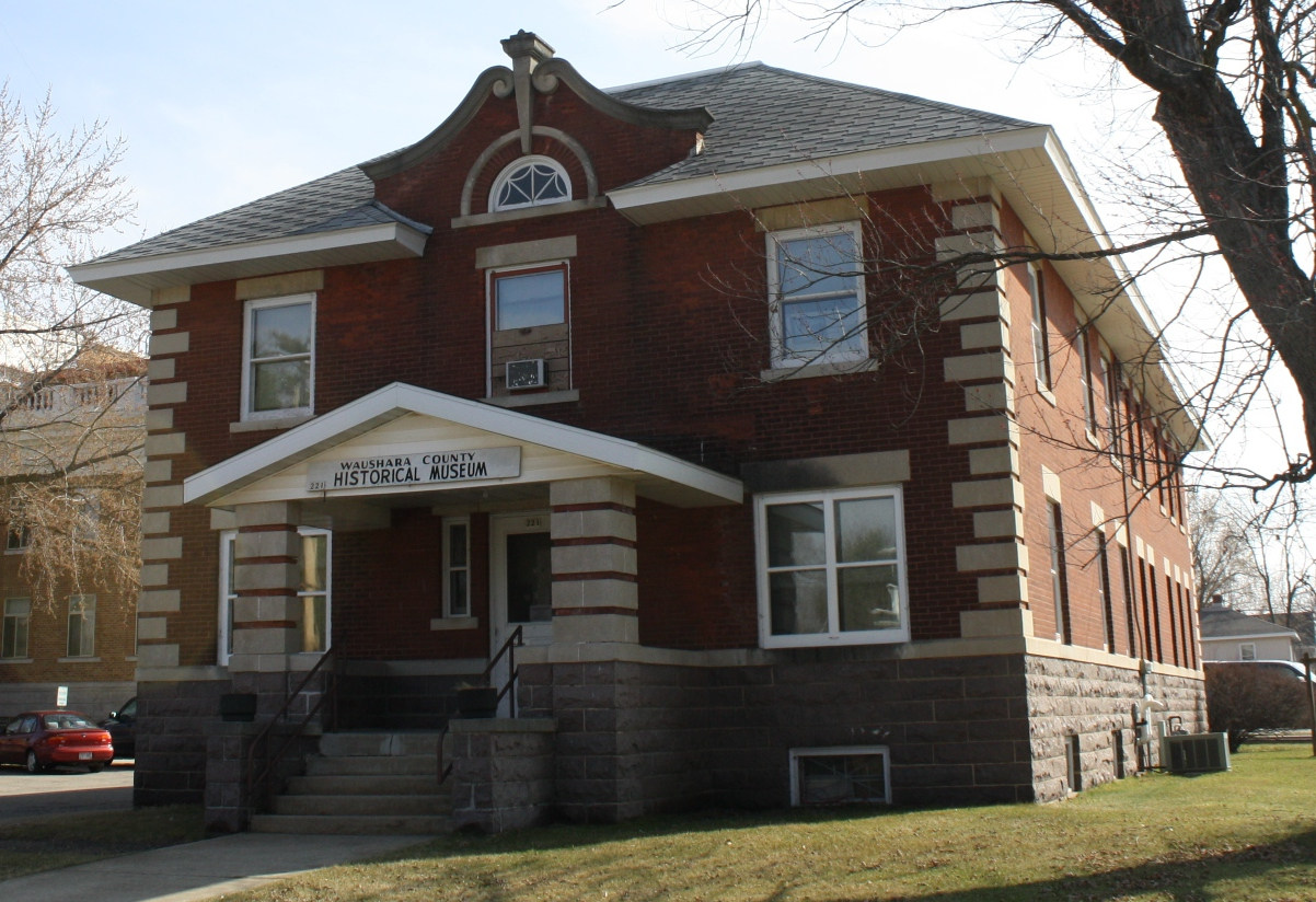 The former Waushara County Sheriff's Residence and Jail, listed on the National Register of Historic Places as part of the Waushara County Courthouse, Waushara County Sheriff's Residence and Jail. It is now a historic museum.